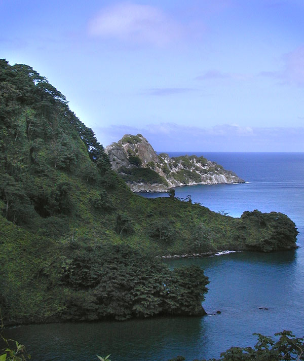 Cocos Island National Park, Costa Rica. Photo taken by Shannon Rankin, NOAA, October 2000 [1].